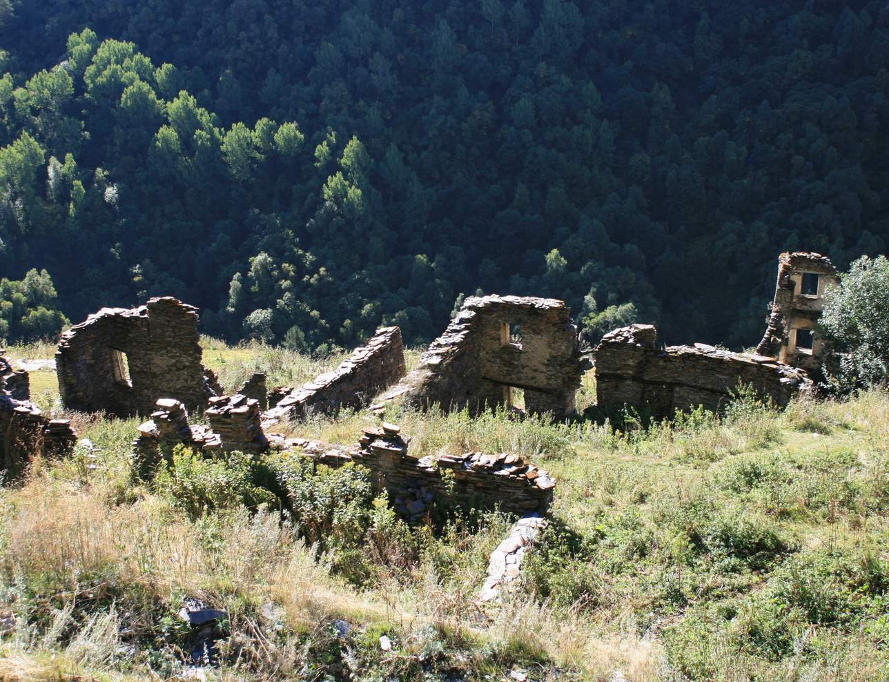 Ruins of the village of Khalde in Svaneti, destroyed by the Russian army in 1876